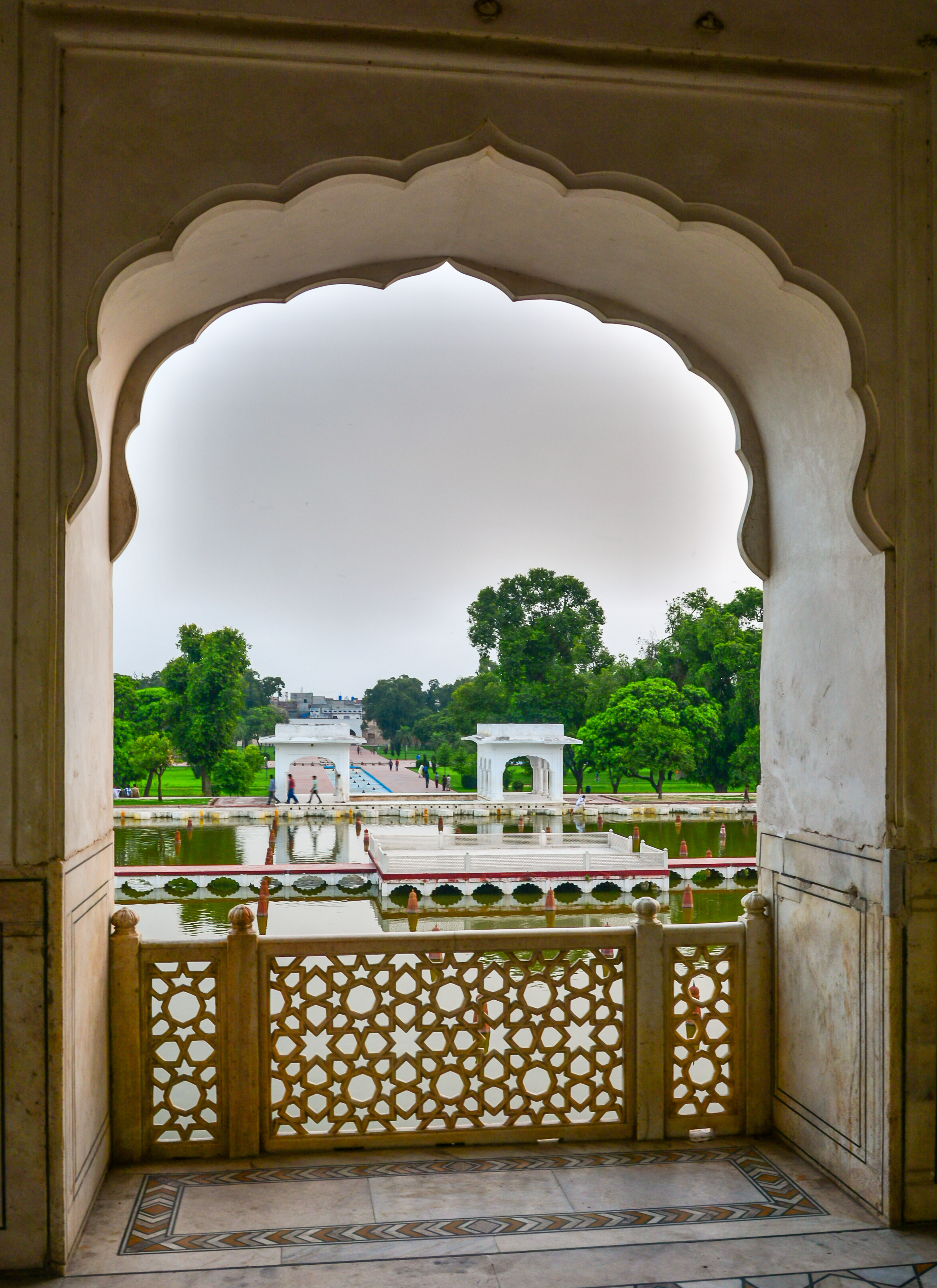 Shalimar Gardens This is a photo of a monument in Pakistan identified as the PB-84